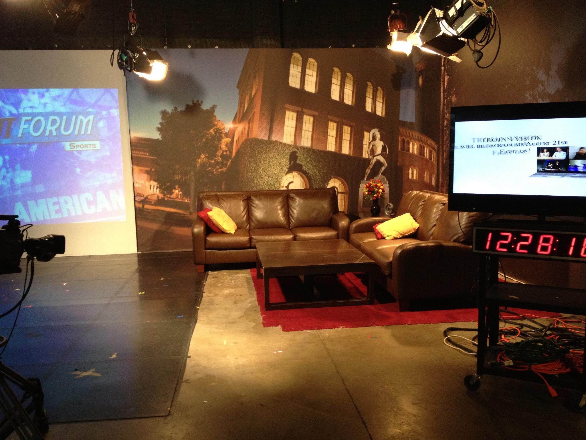 picture of studio